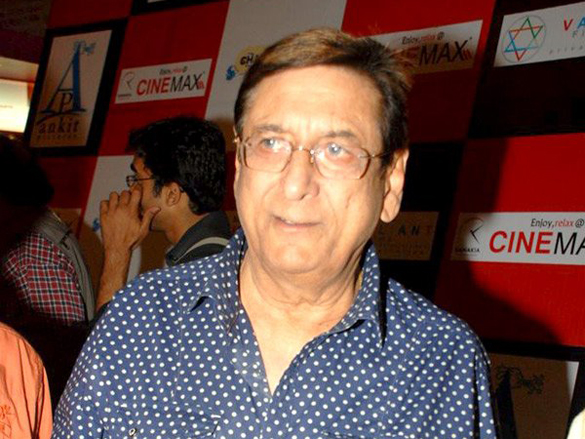 Gufi Paintal at the Premiere of Chal Chalein